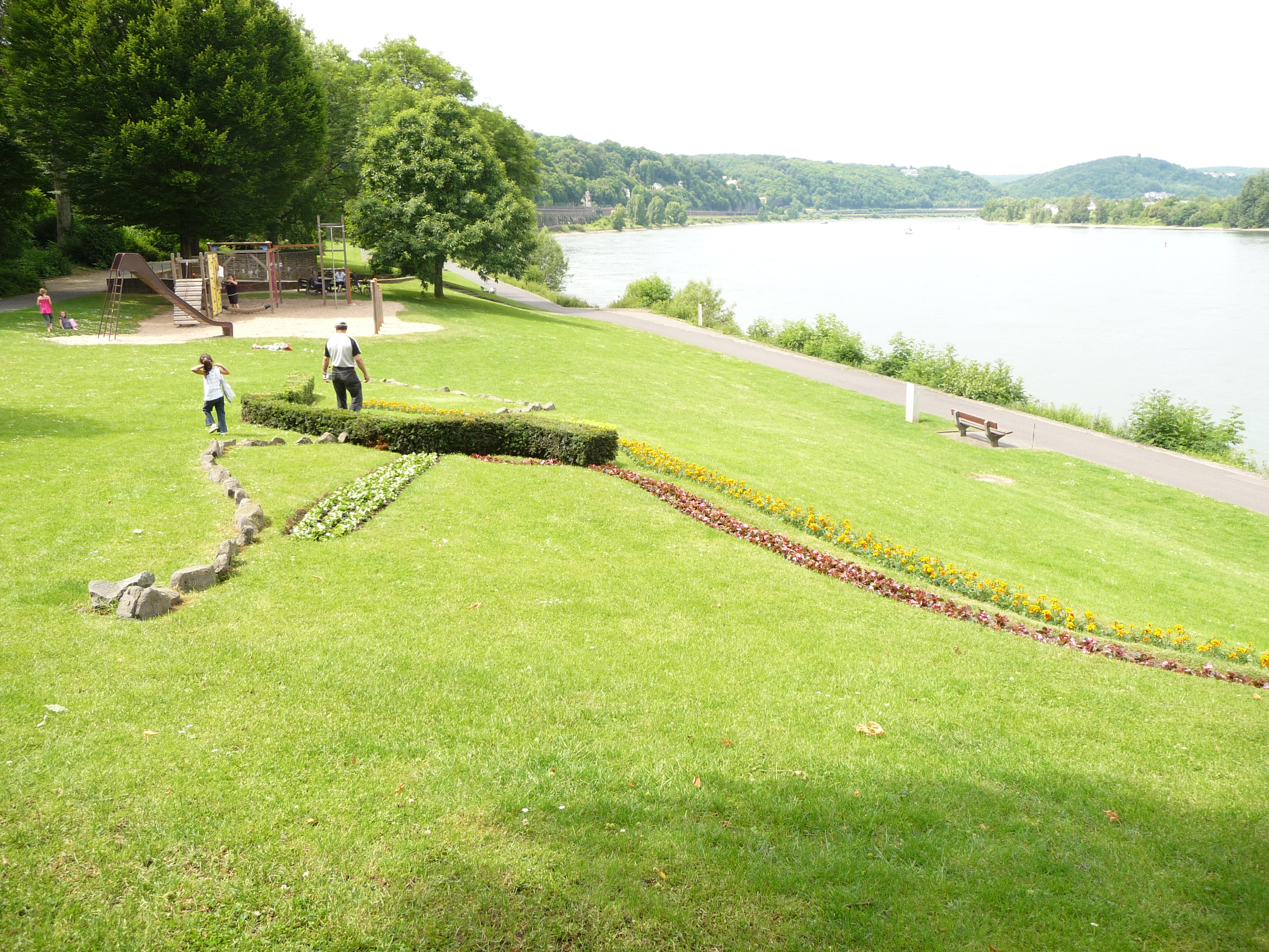 Peter Hutchinson: Thrown rope; Skulpturenufer Remagen